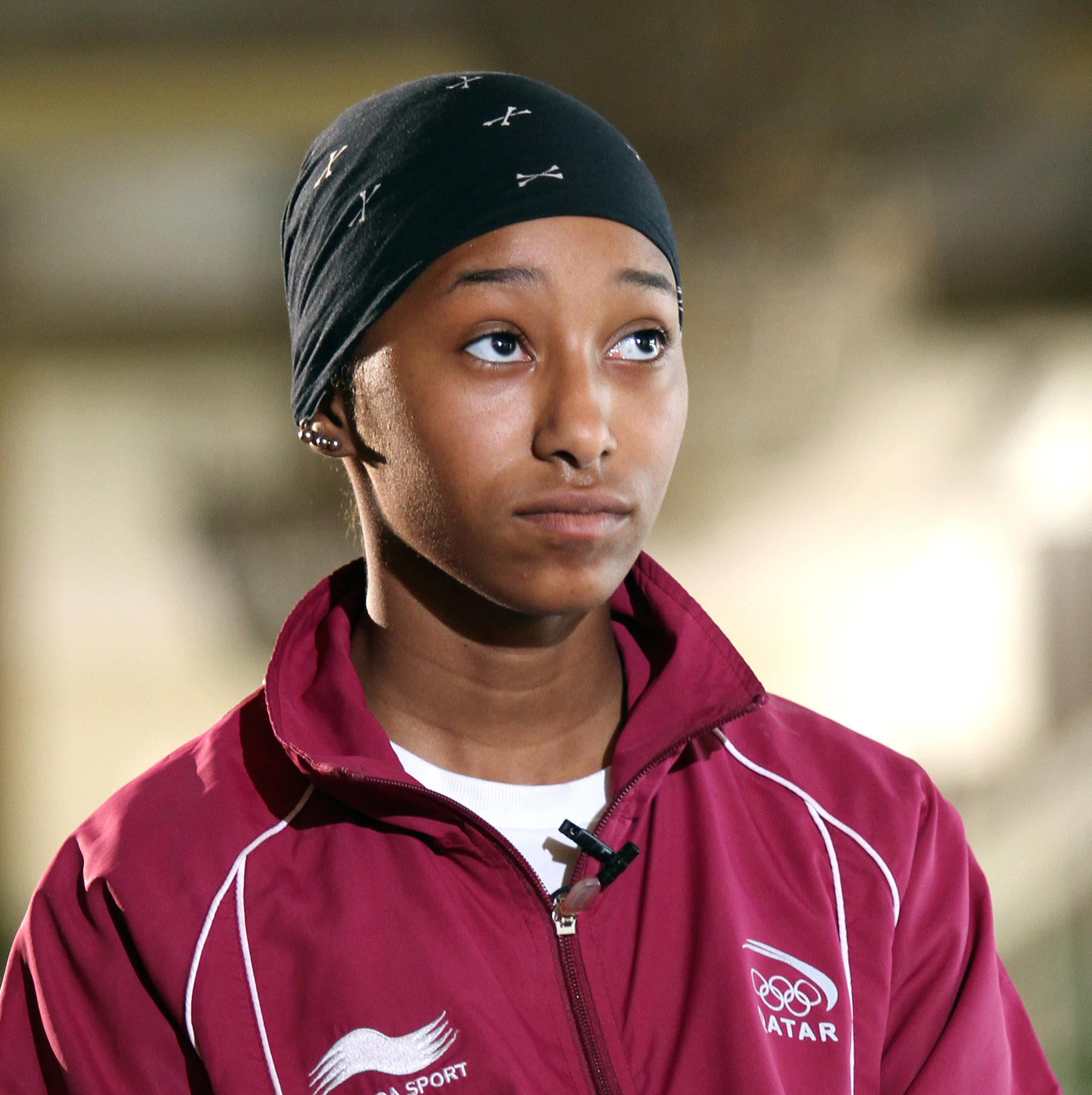 Qatari sprinter Noor Al Malki attends a Press conference in Doha. Picture by Vinod Divakaran